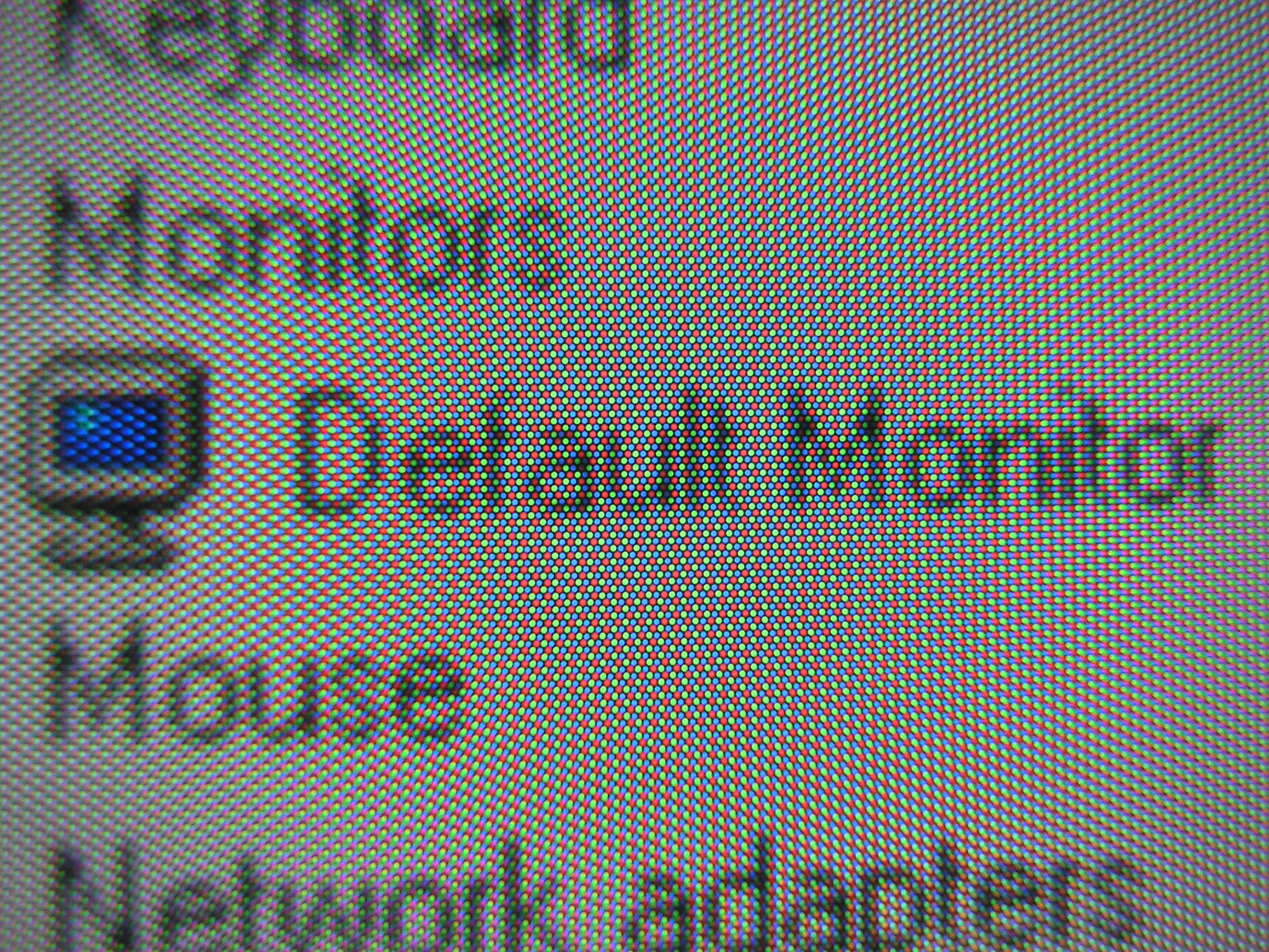 RGB pixels on a CRT monitor (DEC VRC15-KA; Philips tube; 1996)